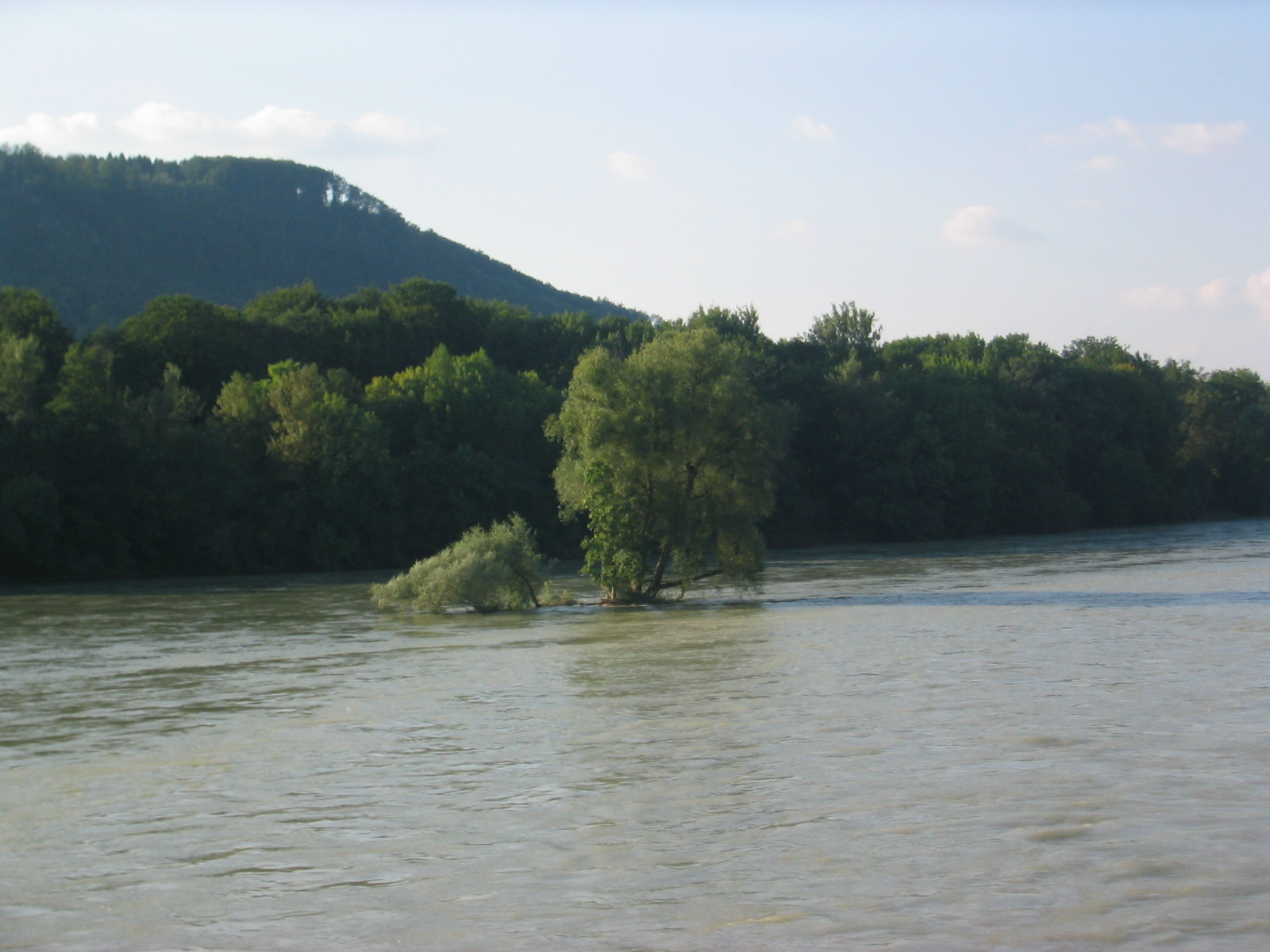 Brugg, Aargau, Switzerland